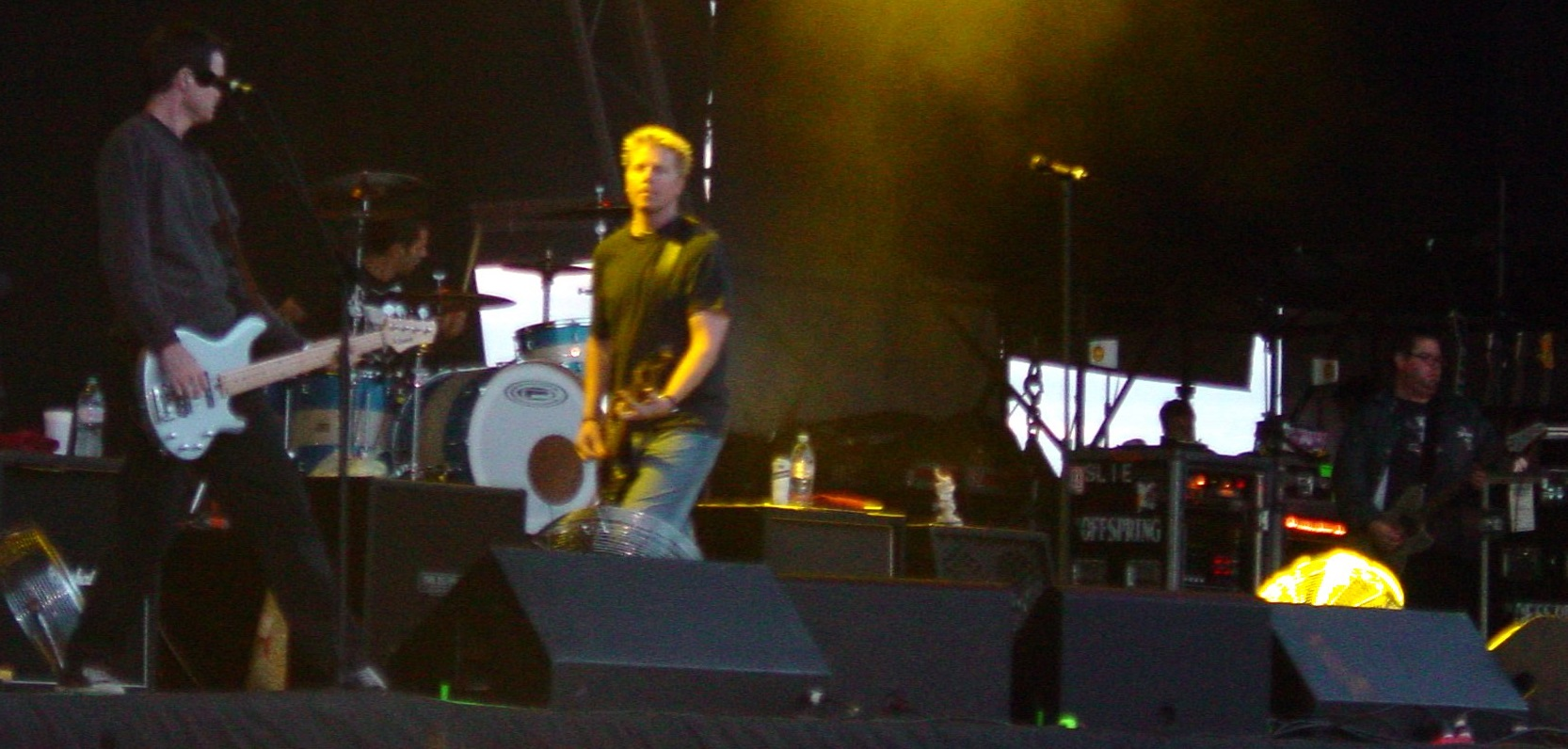 The Offspring. A good set, but they were completely overshadowed by Greenday.